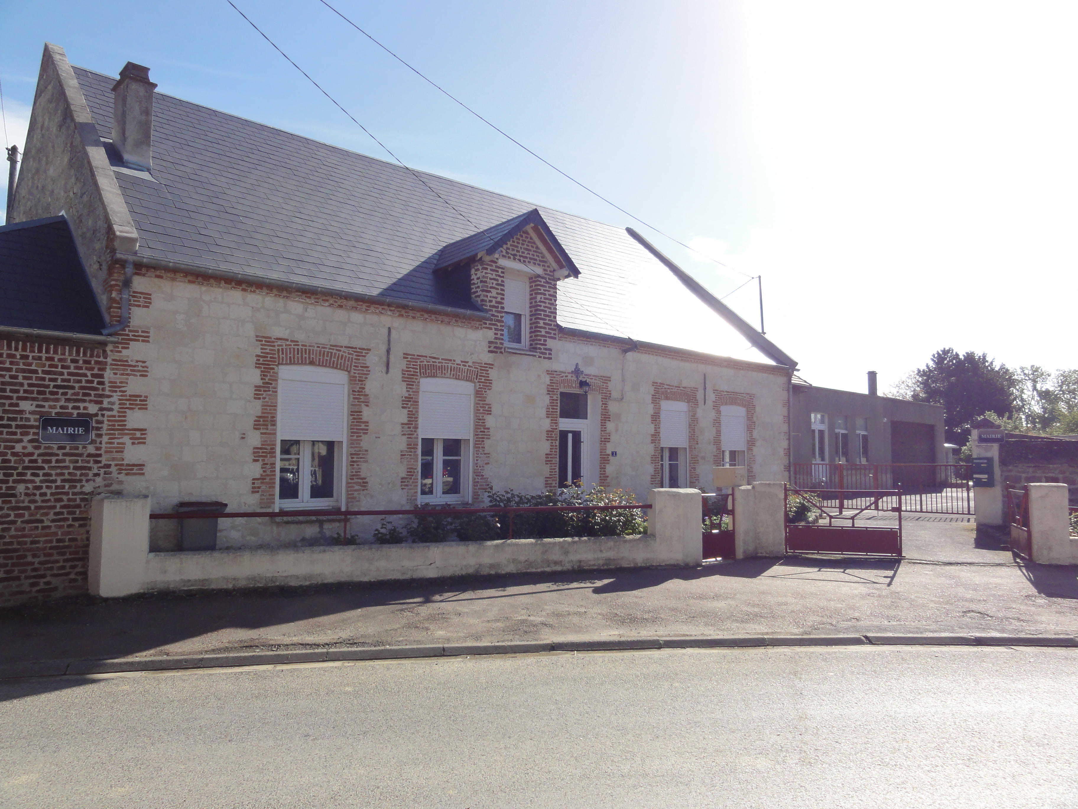 Monceau-le-Waast (Aisne) mairie